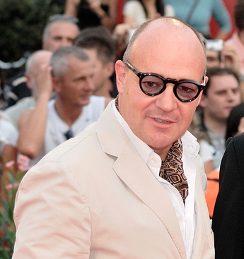 Gianfranco Rosi (director) at 2009 Venice Film Festival